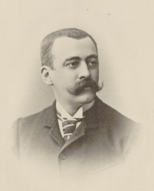 French composer and conductor Gaston Serpette (1846-1904)